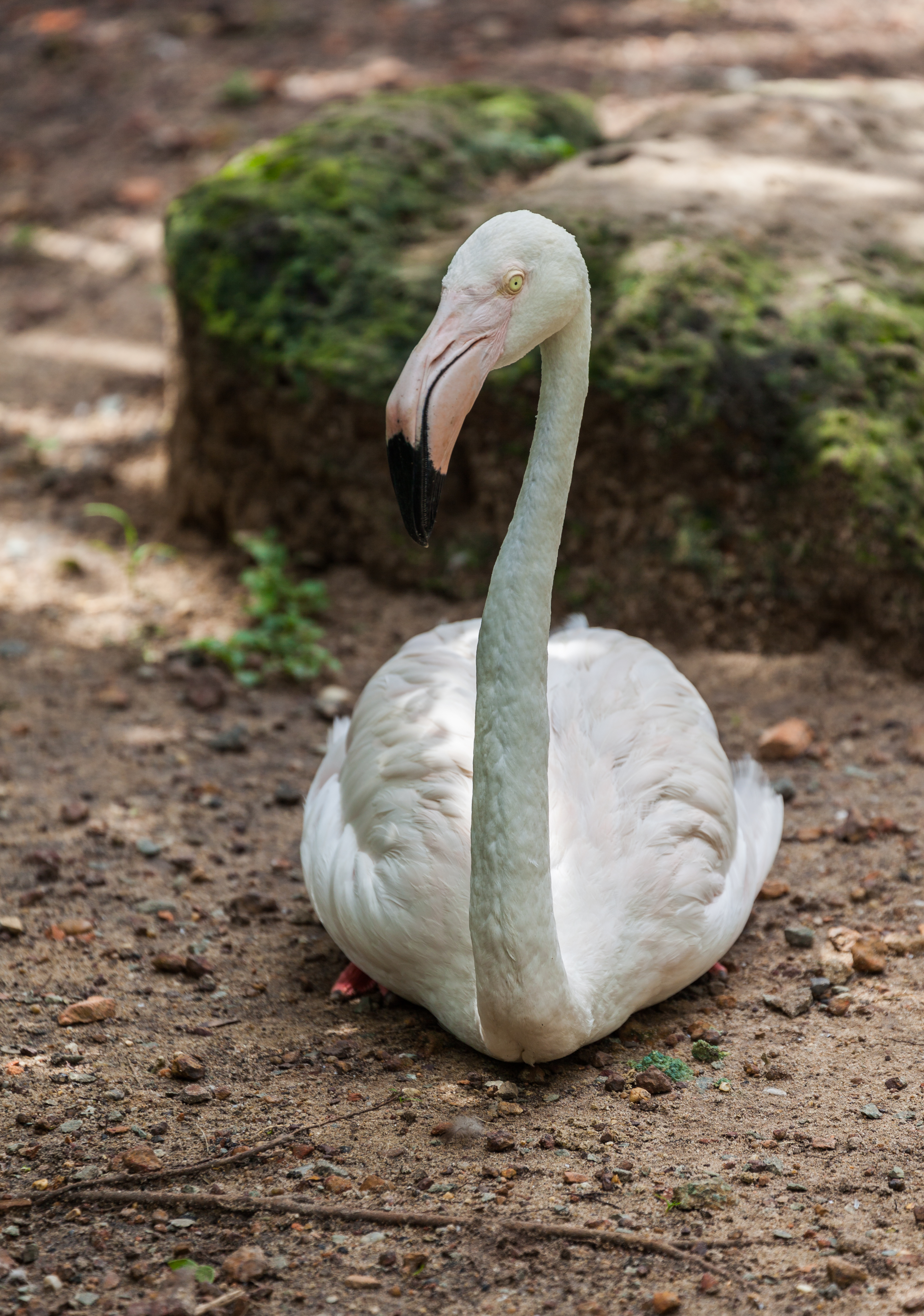 Chilean Flamingo (Phoenicopterus chilensis), Ho Chi Minh City Zoo, Vietnam